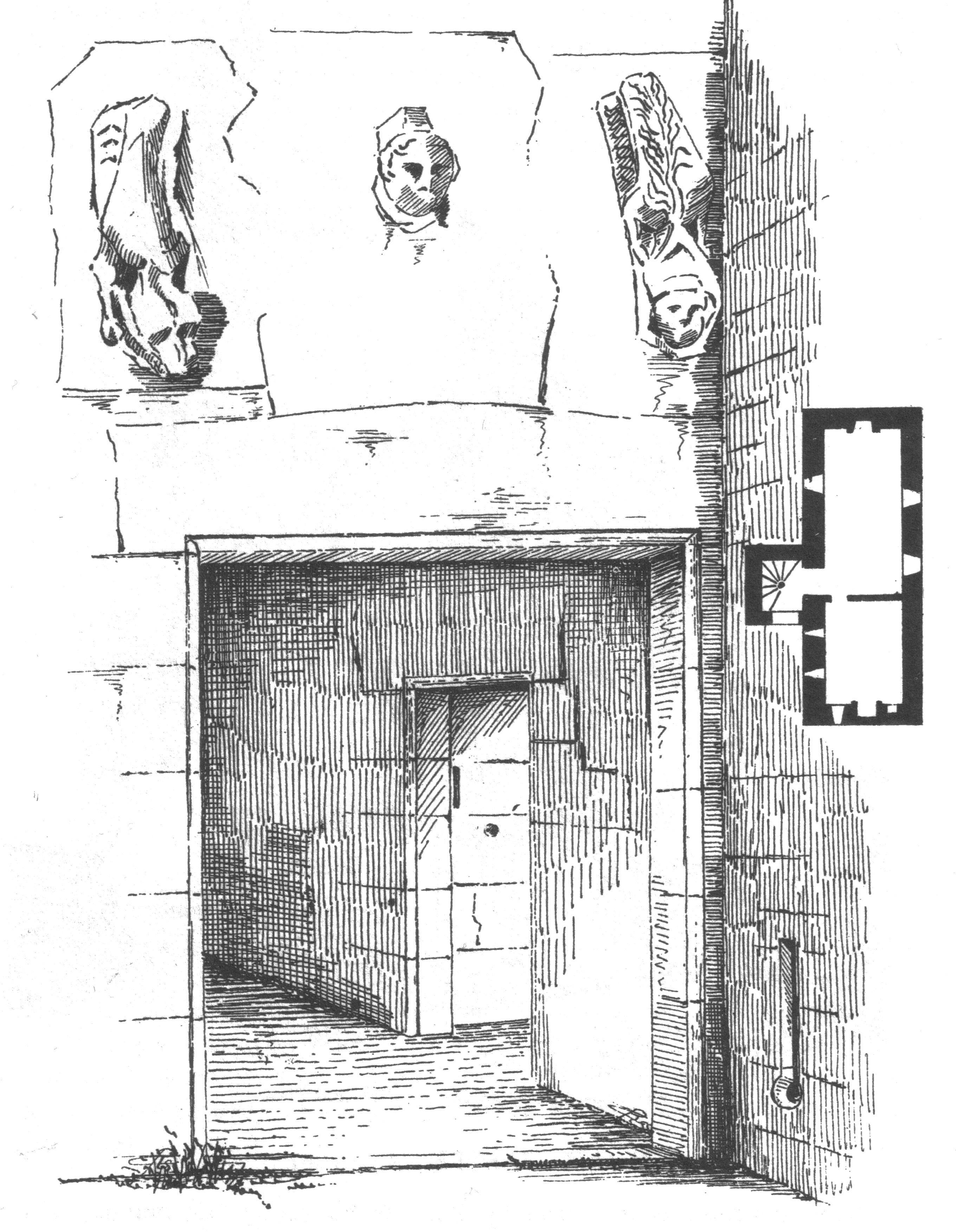 The entrance and carvings at Monkcastle, Dalry, North Ayrshire, Scotland